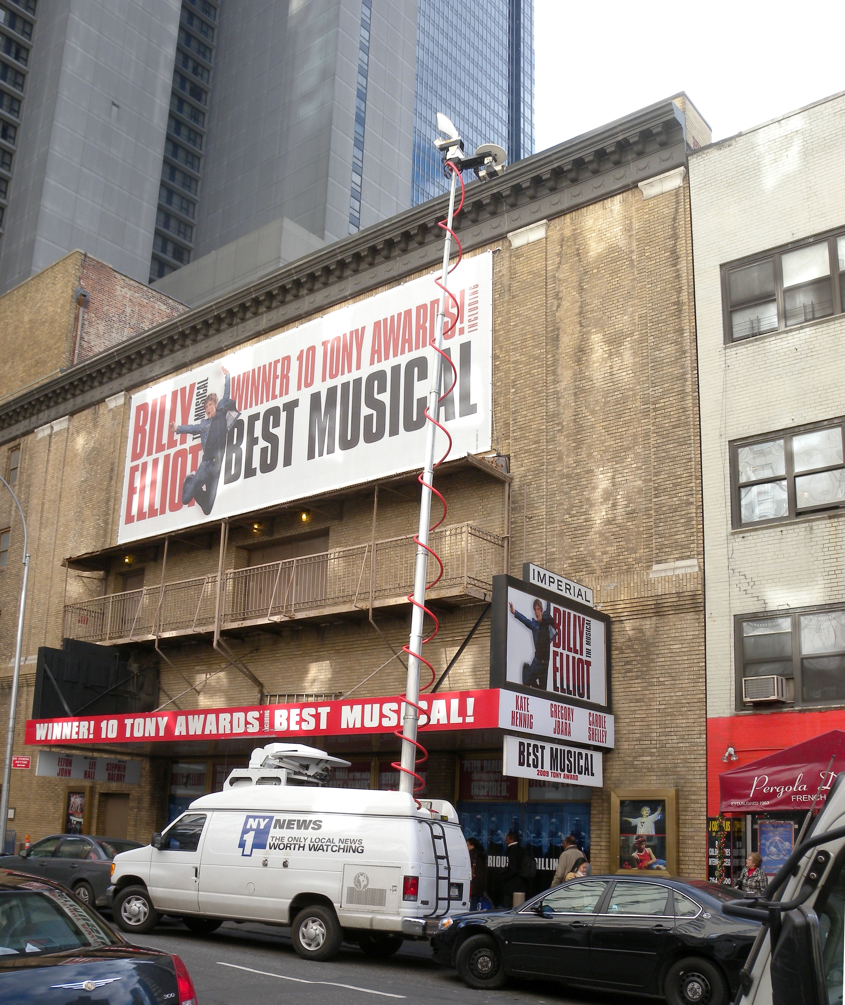 Looking south at a NY1 remote van, on a sunny afternoon after a police detective shot dead a scam artist who had been shooting a Mac-10 submachinegun around the nearby Times Square Marriot Hotel.